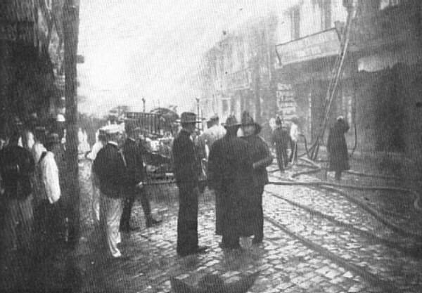 Manila Fire Department at work (circa 1903).